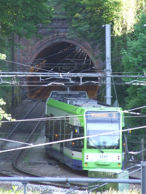 A tram leaving Sandilands tunnel, and taking the sharp left bend to Sandilands tram stop. The tunnel previously carried the Woodside to Sanderstead railway line, which carried straight on here rather than bending sharply to head into Croydon. The railway line closed in 1983, the tram system opened 17 years later. Six years after this photograph was taken, a tram derailed on this curve, resulting in seven deaths and 58 injuries.